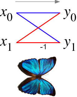 Original illustration (2005), based in part on Image:Blue morpho butterfly.jpg, for the data-flow diagram of a "butterfly" in a radix-2 Cooley-Tukey FFT algorithm.